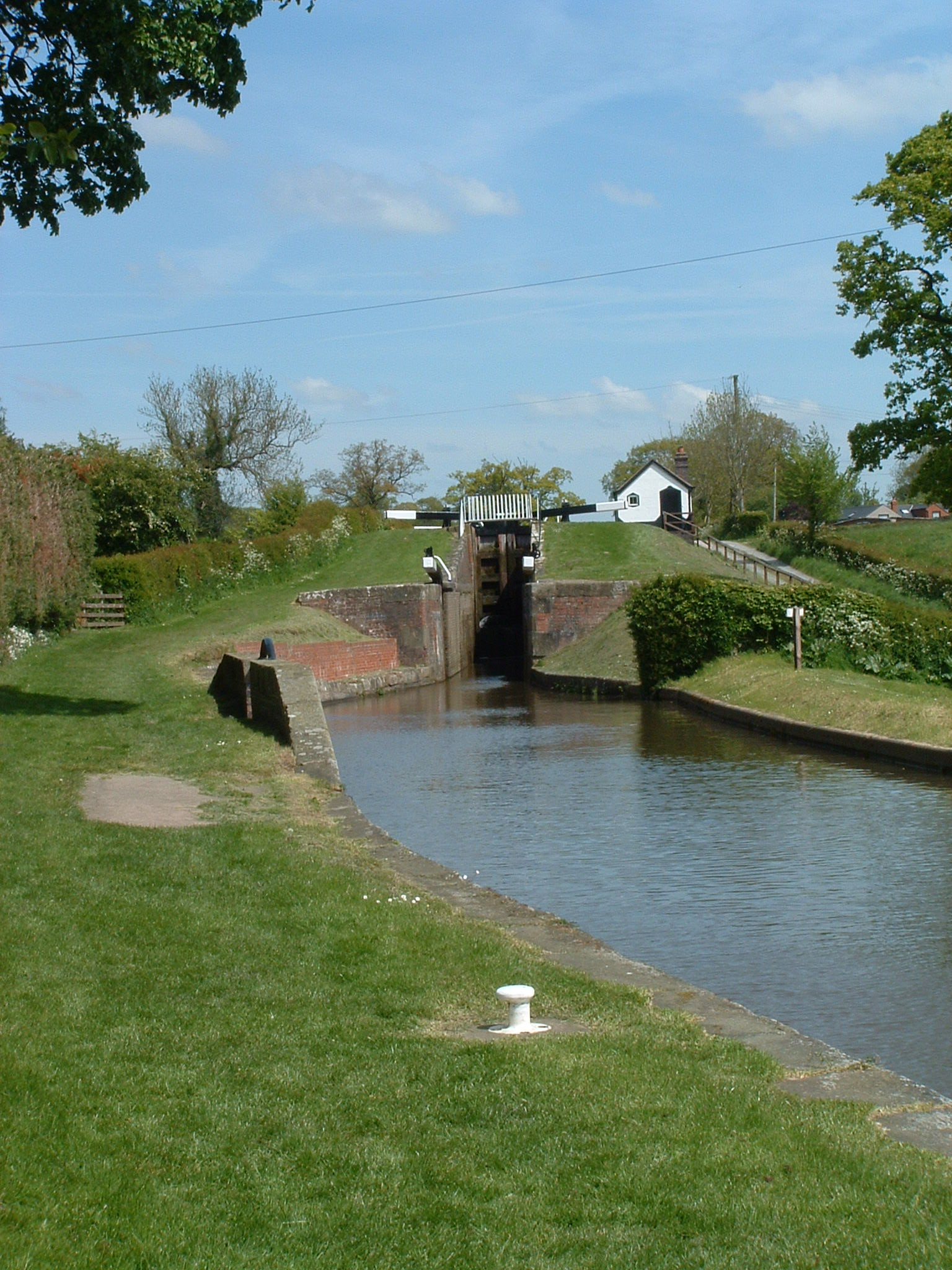 The staircase lock at Welsh Frankton